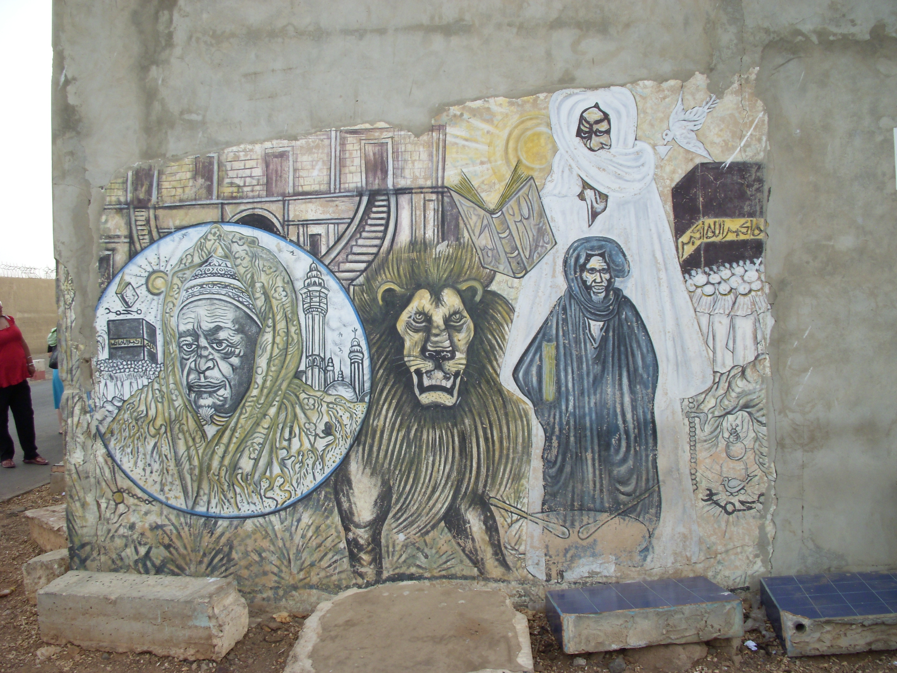 Mural on a wall in Dakar, Senegal, Showing leaders of the Mouride Sufi sect, including Ahmadu Bamba (right, in white) and Ibrahima Fall (right, blue), and El Hadj Malick Sy (left), or Mouhamadou Fadilou Mbacké (see discussion).DSCN1065